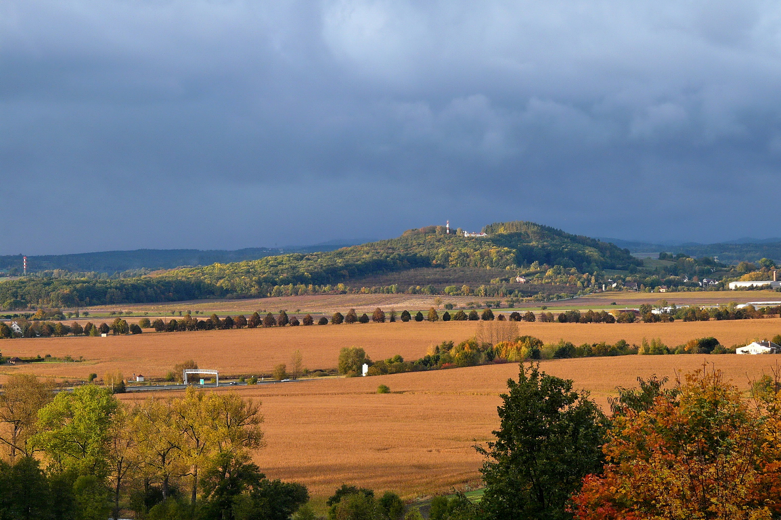 Káčov from Horka near Mnichovo Hradiště